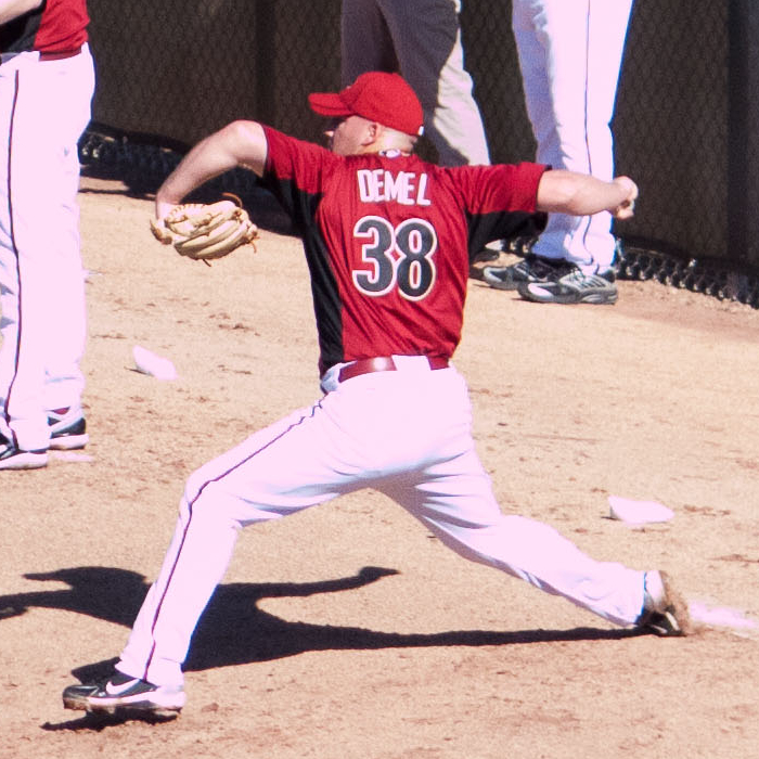 Sam Demel Camera: Canon EOS REBEL T1i License on Flickr (2011-02-18): CC-BY-2.0 Flickr tags: baseball, spring training, scottsdale, cactus league